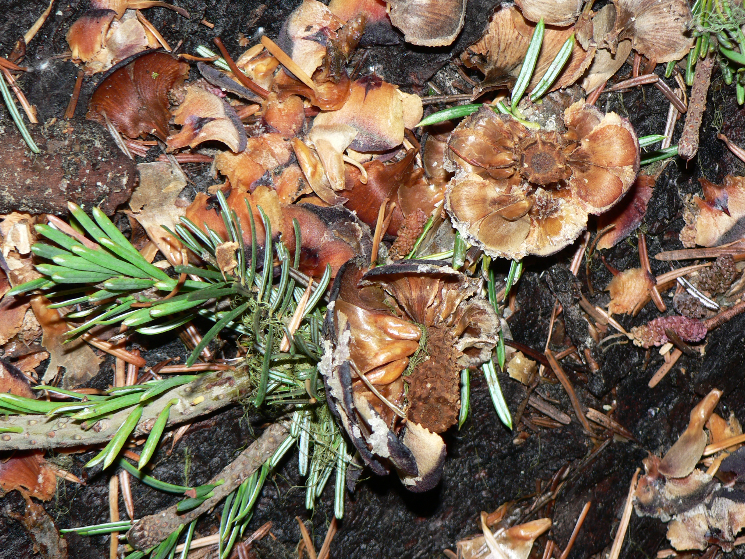 Pacific Silver Fir cone debris from feeding Douglas Squirrels (Tamiasciurus douglasii)